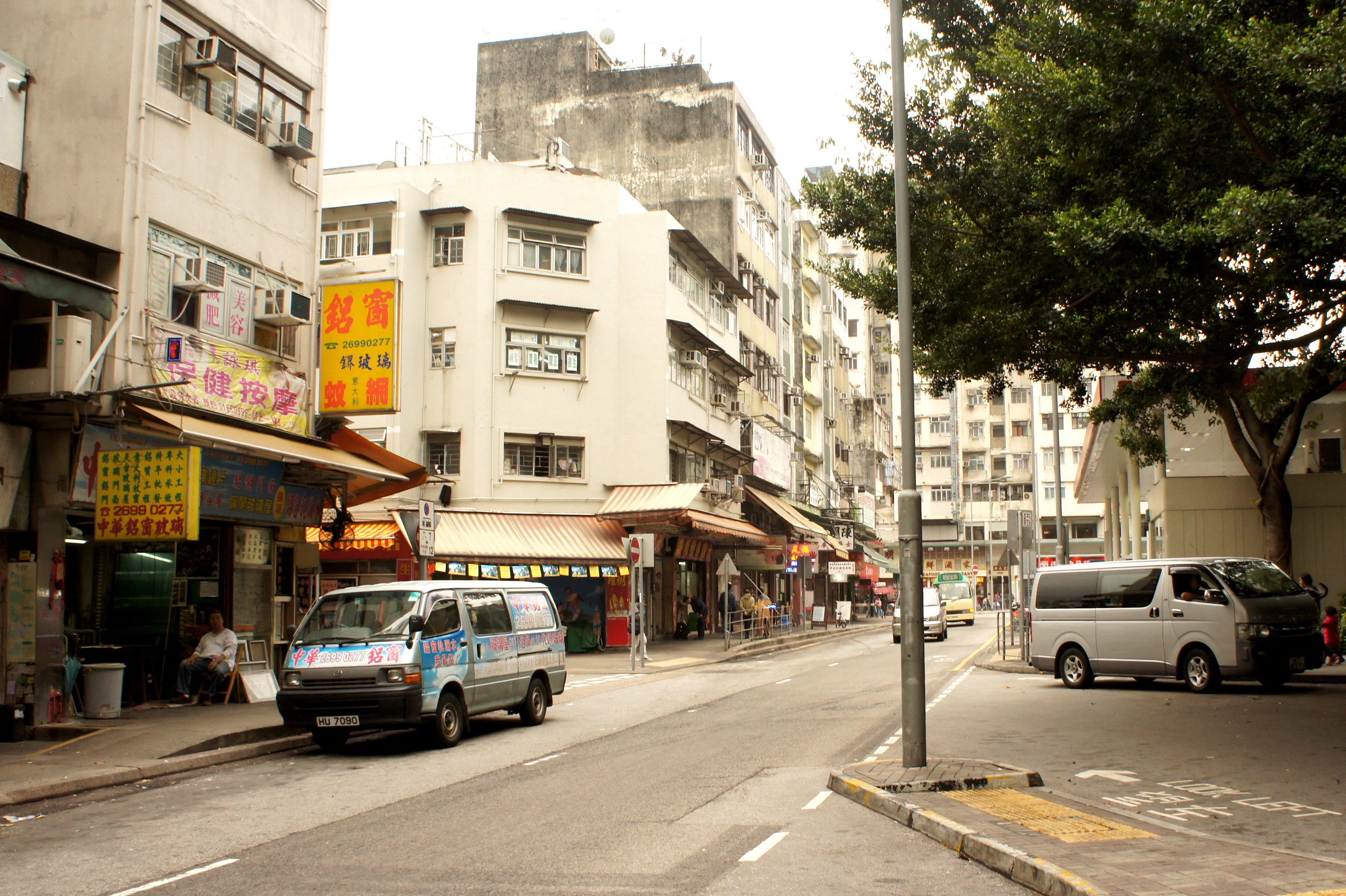 Chik Chuen Street, Tai Wai, New Territories, Hong Kong.